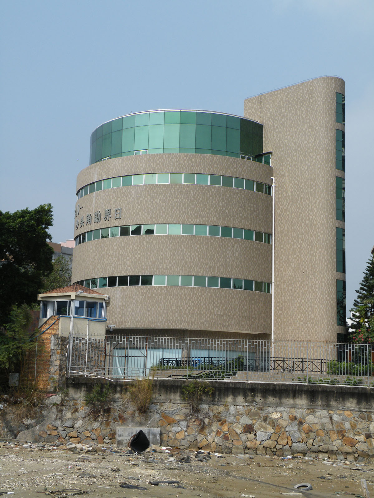 ZhongYingStreet Historical Museum, China